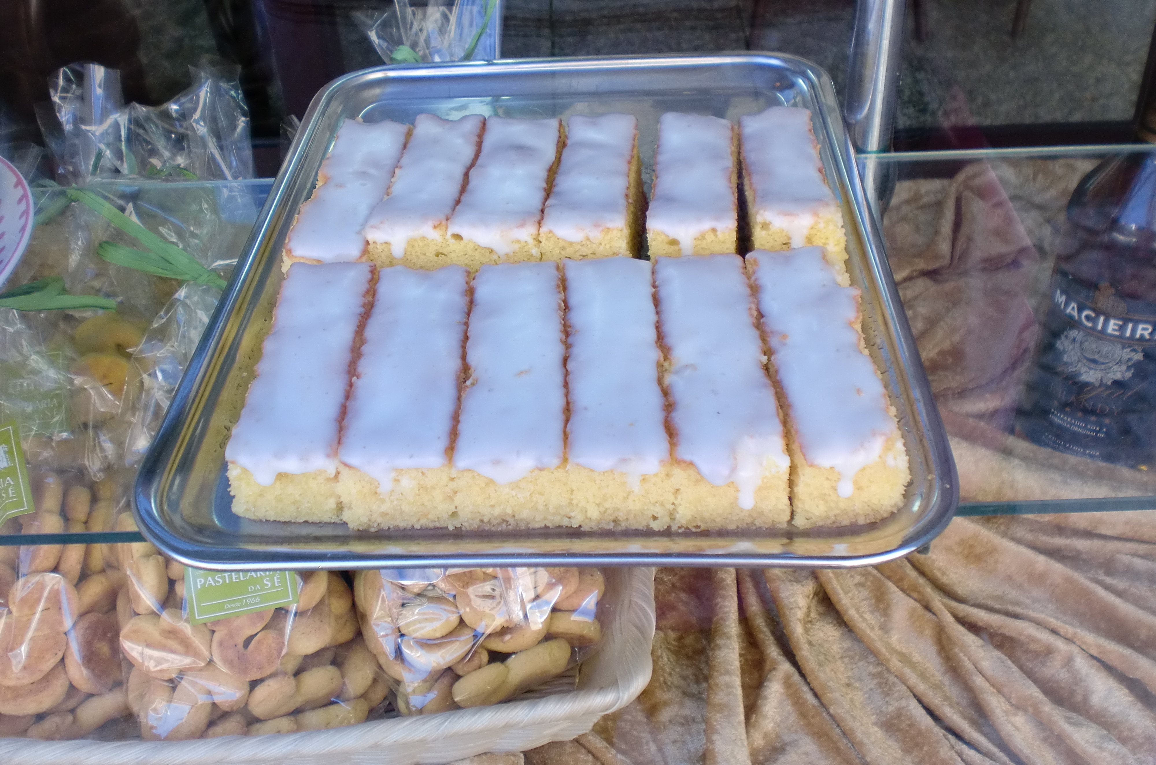 Cavacas de Resende, na Pastelaria da Sé em Lamego.